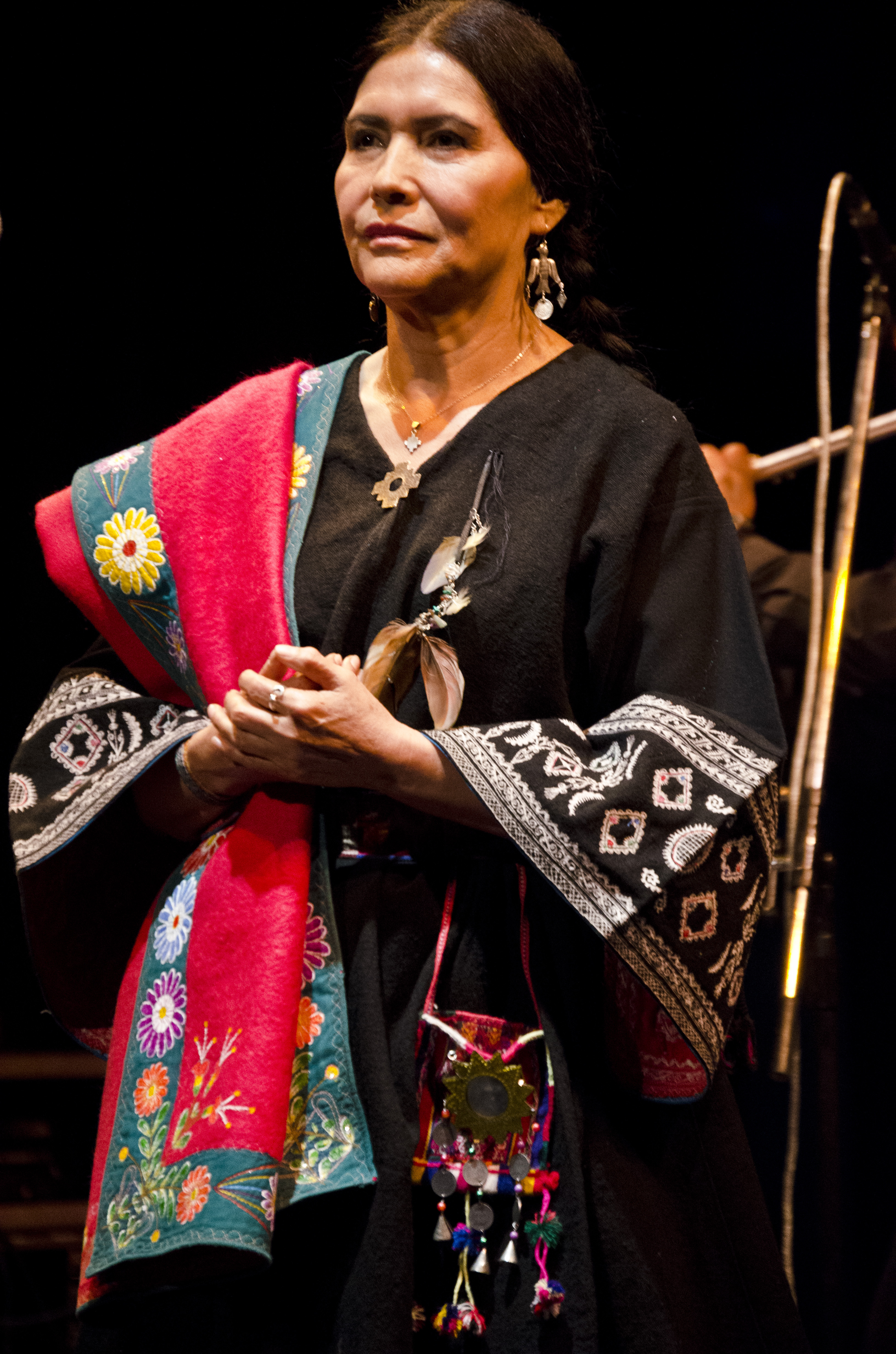 Mar del Plata, 16 de mayo de 2014 - At the Mercado de Industrias Culturales del Sur (MICSUR), Luzmila Carpio from Bolivia played in the showcase. Photos: Mauro Rico / Ministerio de Cultura de la Nación.